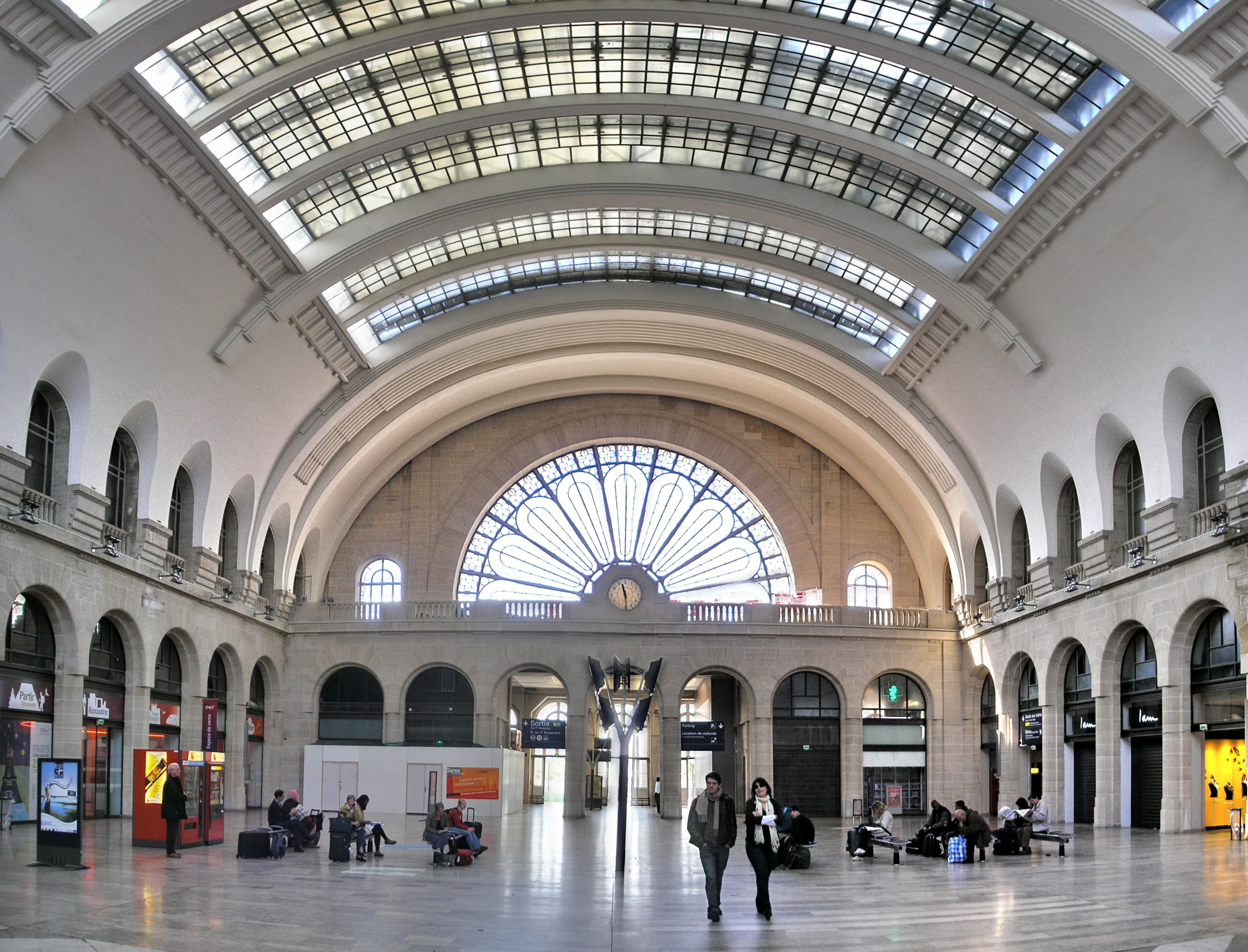 Interior of one of the arrival halls in the Gare de l'Est in Paris